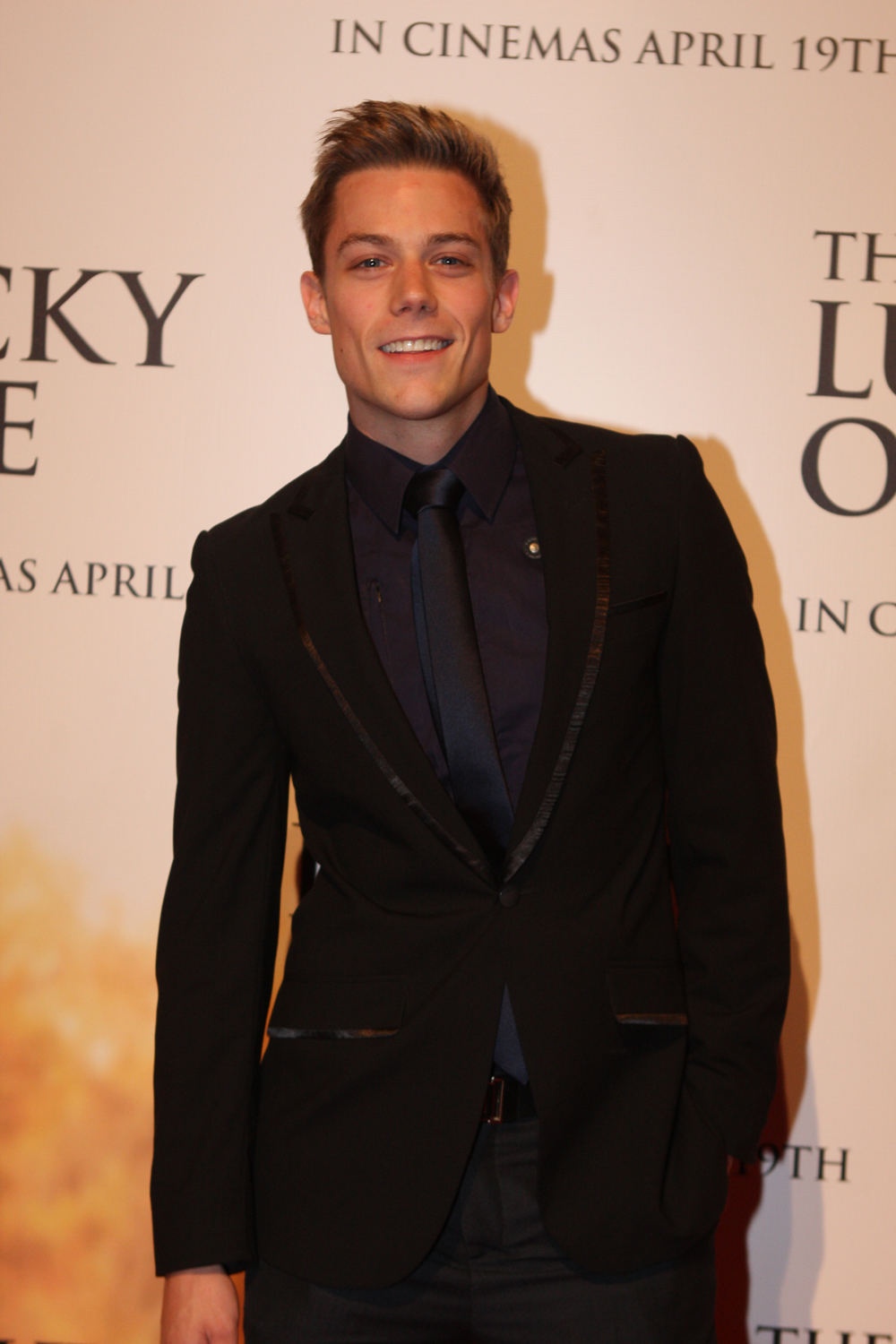 Actor Tim Pocock The Lucky One World Premiere at Bondi Juction, Sydney, Australia